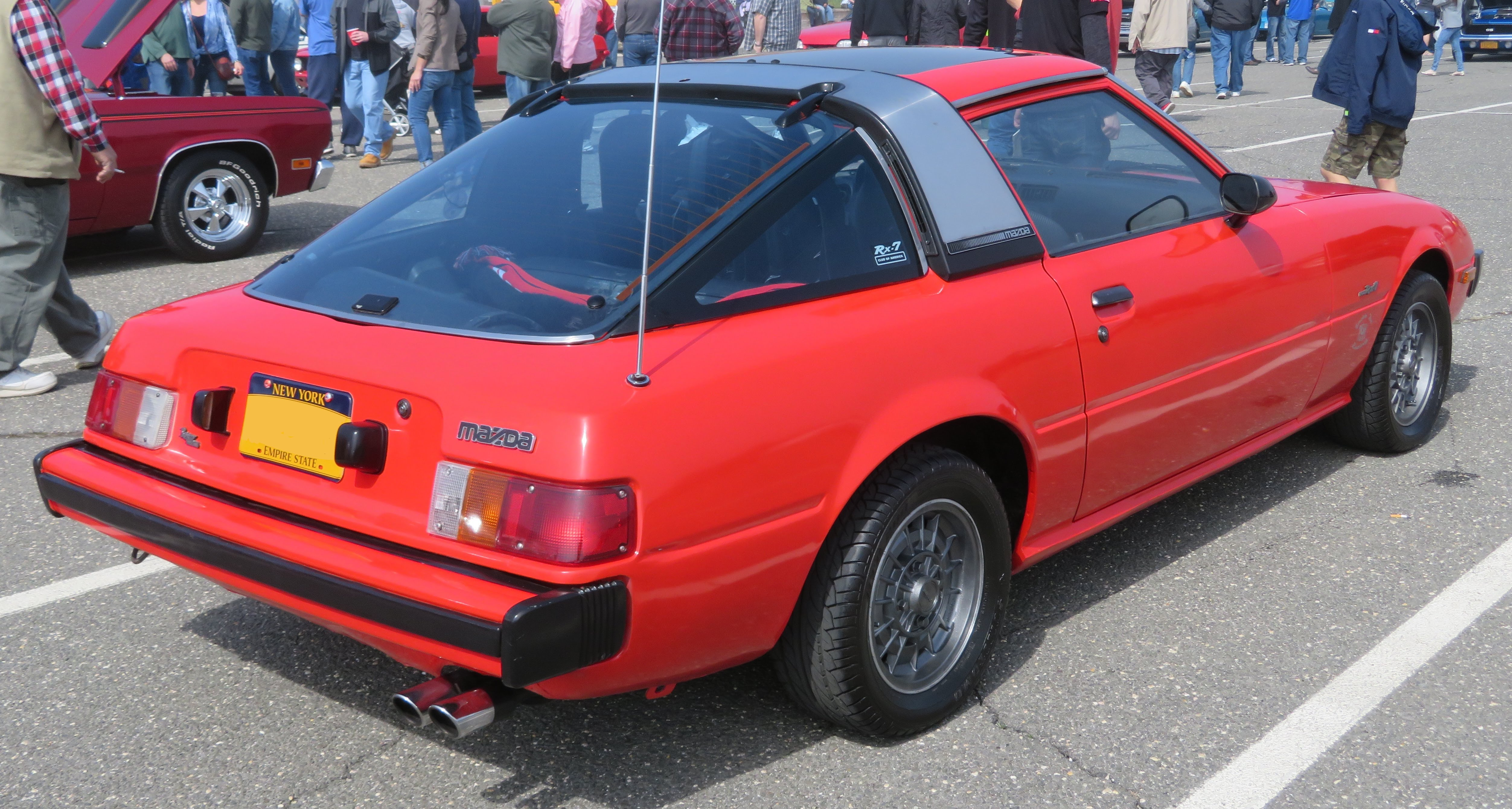 Belongs to a member of the RX-7 Club of America, In Tobay Beach Classic Car Show, Long Island, New York